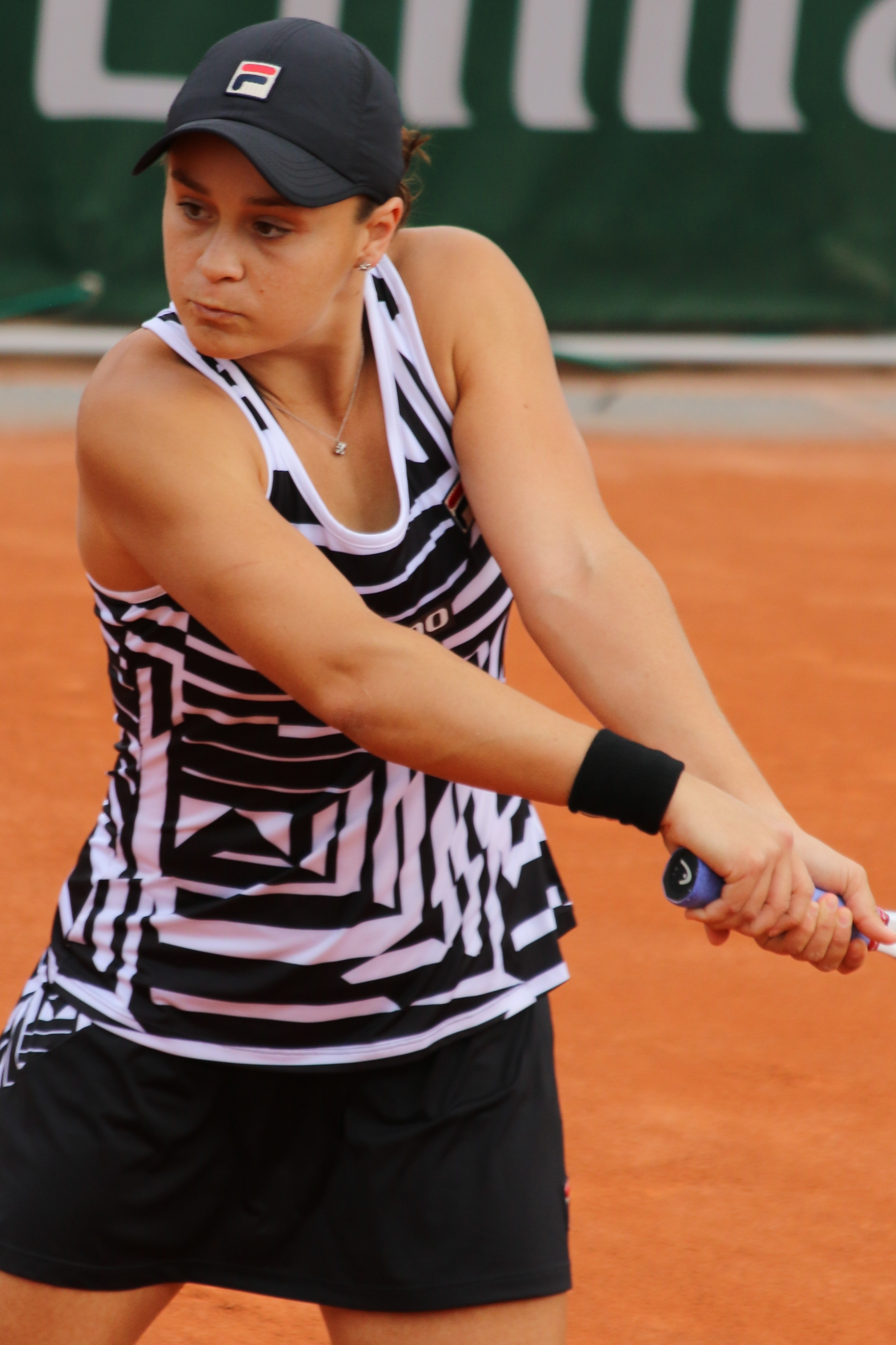 Barty RG19 (9)